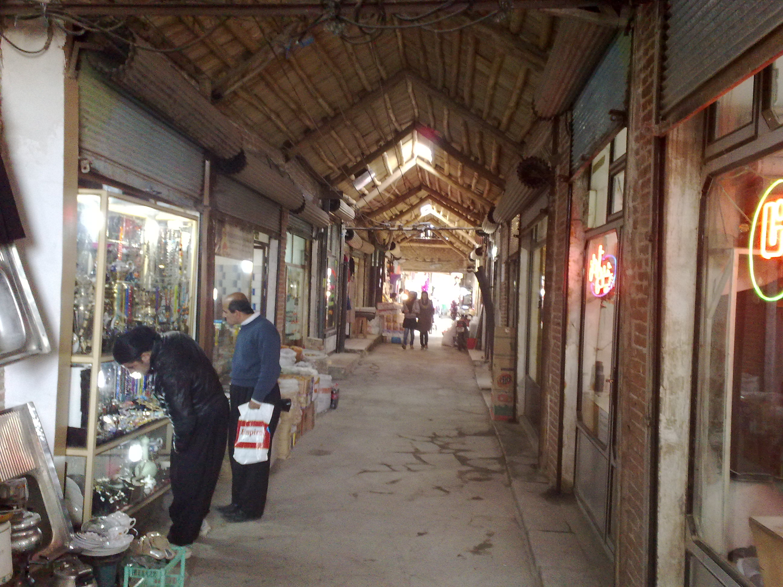 The Jewish-Bazar in Saqqez-Iran